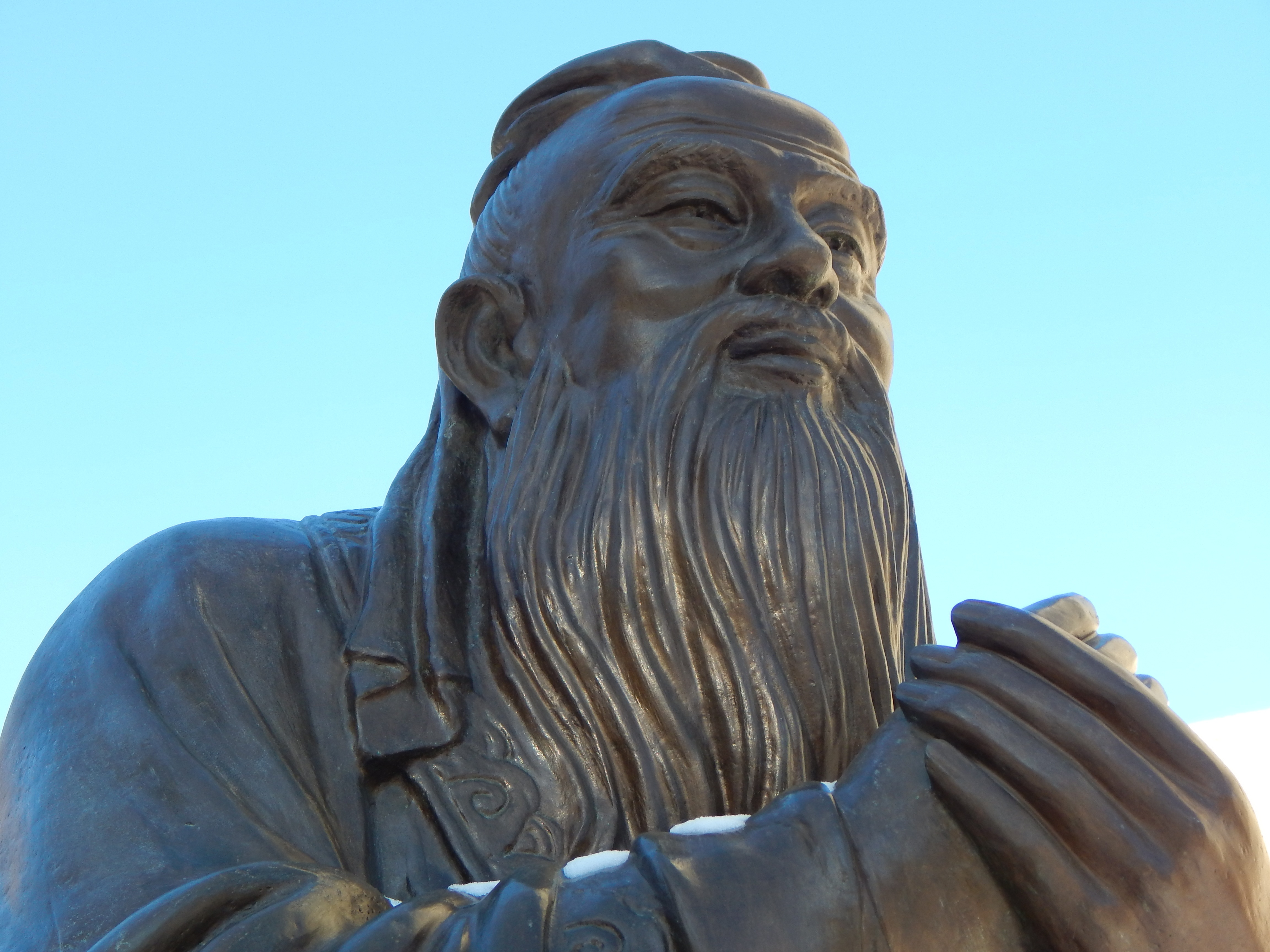 Statue of Confucius in China.